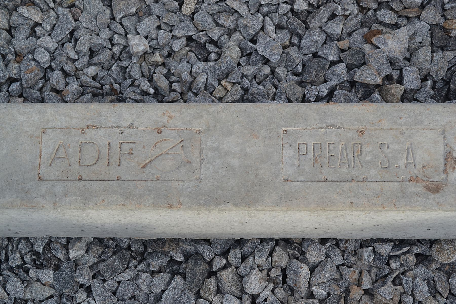 Logo of ADIFSE on a concrete sleeper, alongside the logo of the manufacturer. Taken on the General Roca railway from Buenos Aires to Mar del Plata.